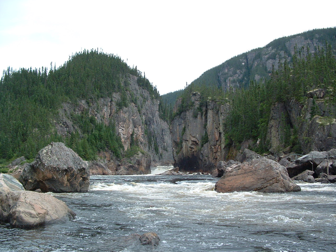 Moisie River, Katchapahun Rapid with Fish Ladder